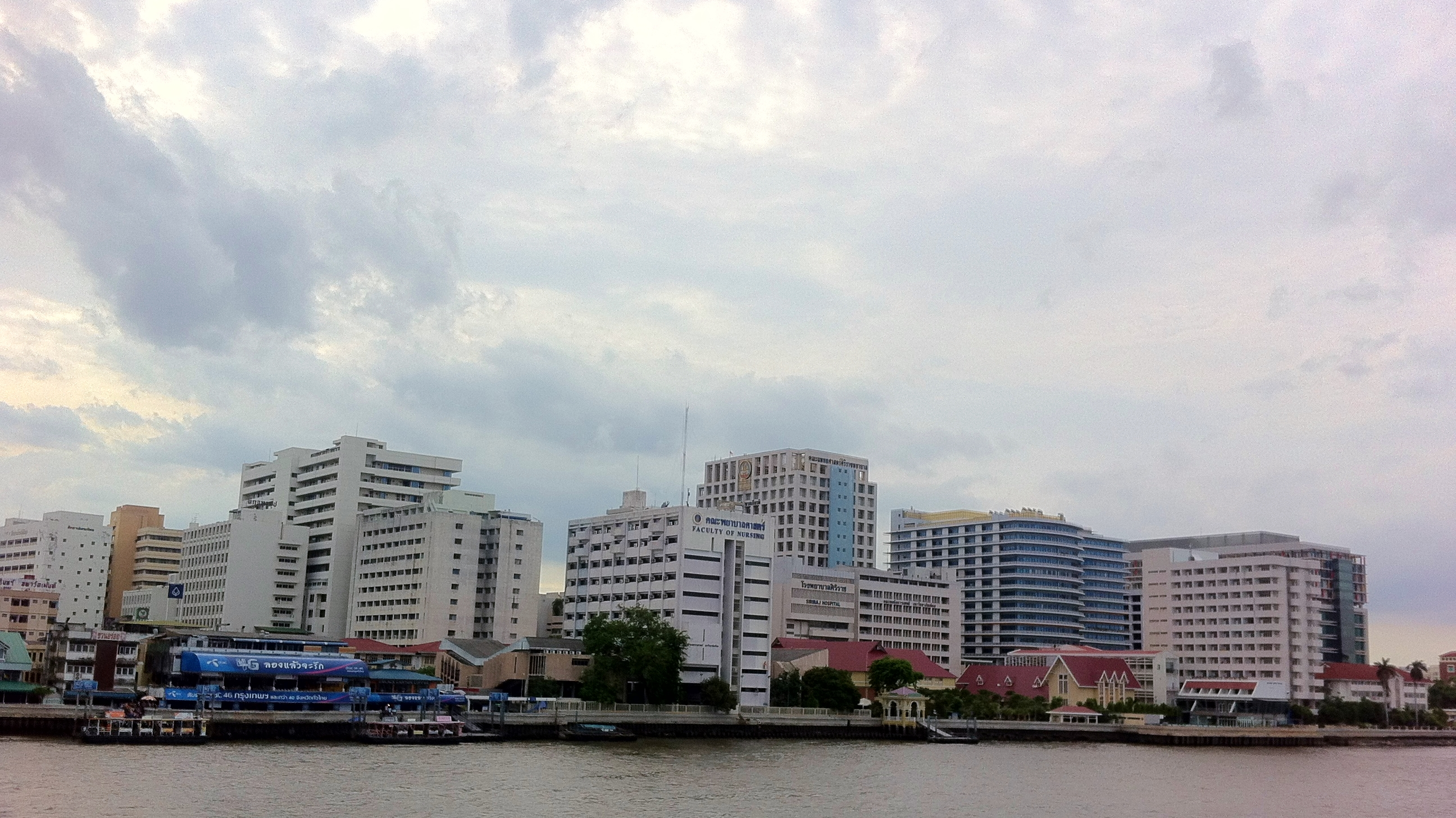 Faculty of Medicine Siriraj Hospital, Mahidol University.